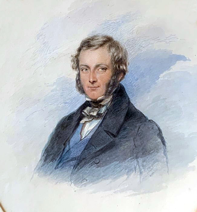 Head and shoulders Portrait of a gentleman